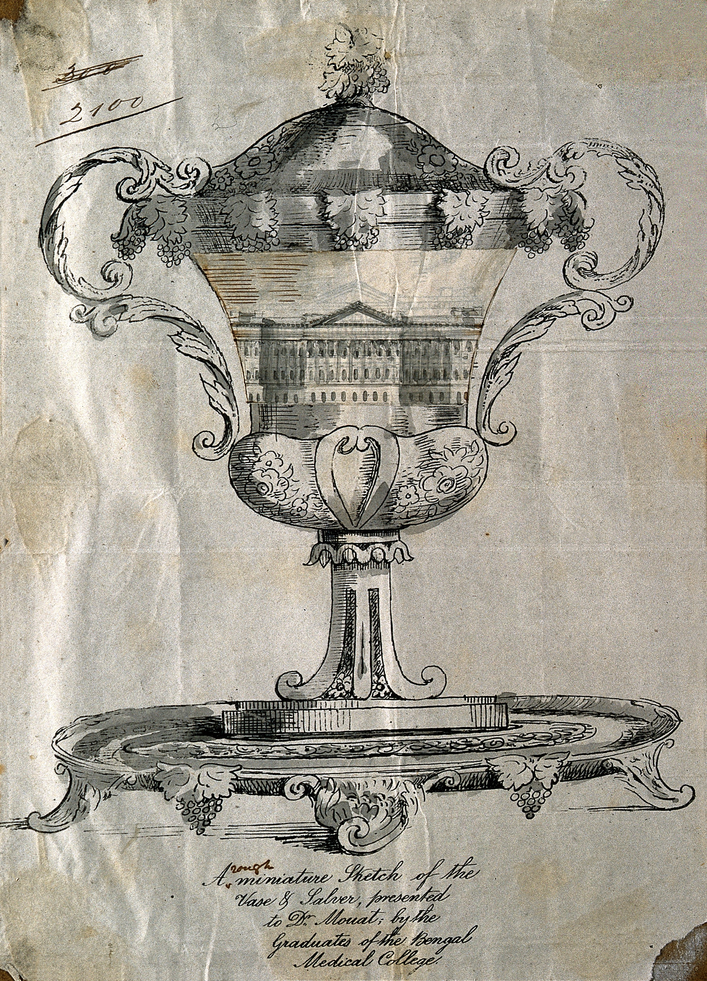 Genre/Technique: Portrait prints. Lithographs. Subject name: Mouat, Frederic J. (Frederic John), 1816-1897.